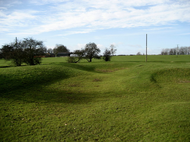 Site of Swainby Abbey Not a stone left standing. But it is easy to trace the layout of where the buildings were, where there is a myriad of bumps and mounds which cover an extensive area